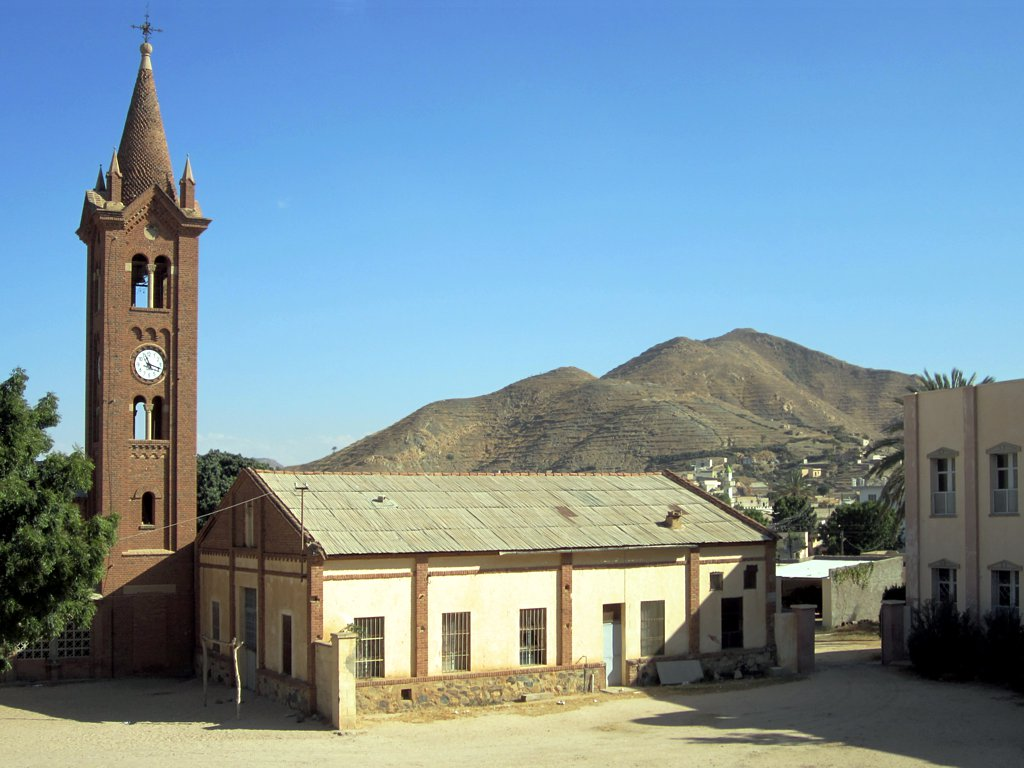 The old Church of San Antonio (1874) stands beside a much newer church of the same name in central Keren, Eritrea.